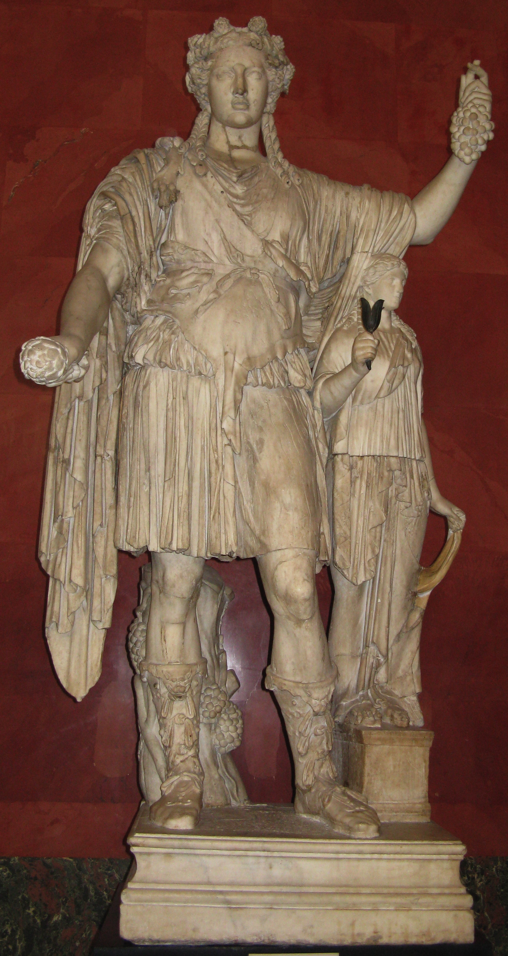 Dionysos and Kore at the Hermitage. Roman copy after a Greek original of the 4th-3rd century B.C.. Marble Height 207.5 cm